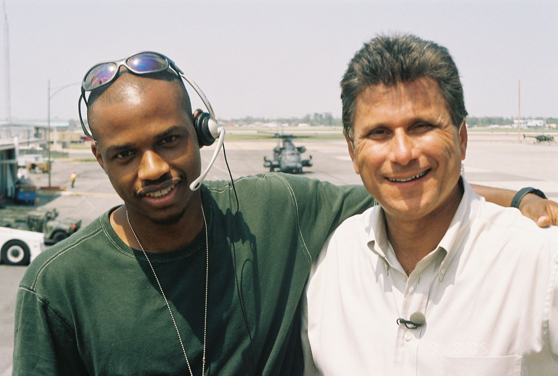 Jim Wieder (right) at an Air Force base reporting on Hurricane Katrina